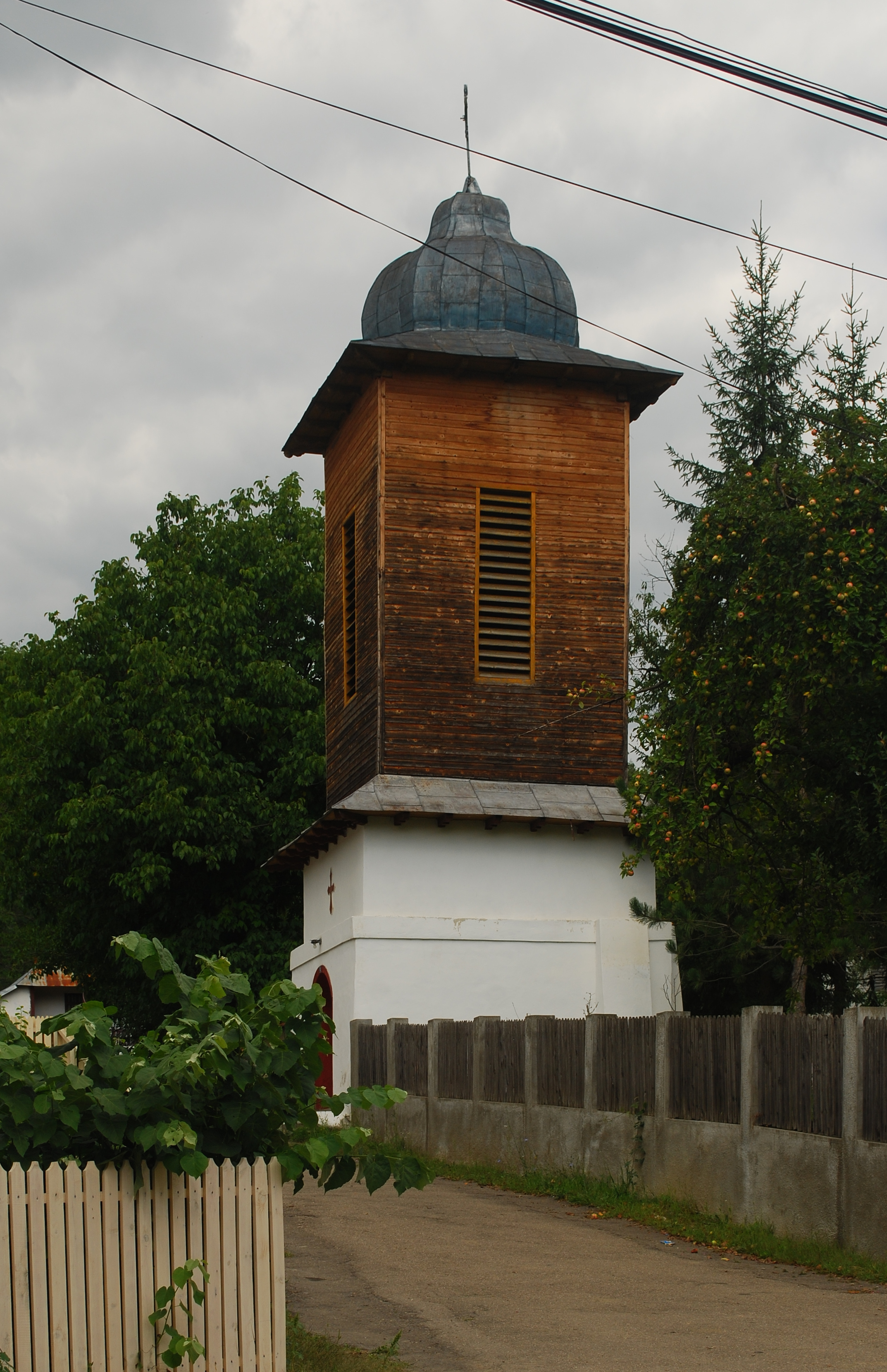 Belfry of the Archangels' church in Bozioru, Buzău County, RomaniaRomână: Clopotnița bisericii „Sfinții Voievozi” din Bozioru, județul Buzău, România 02